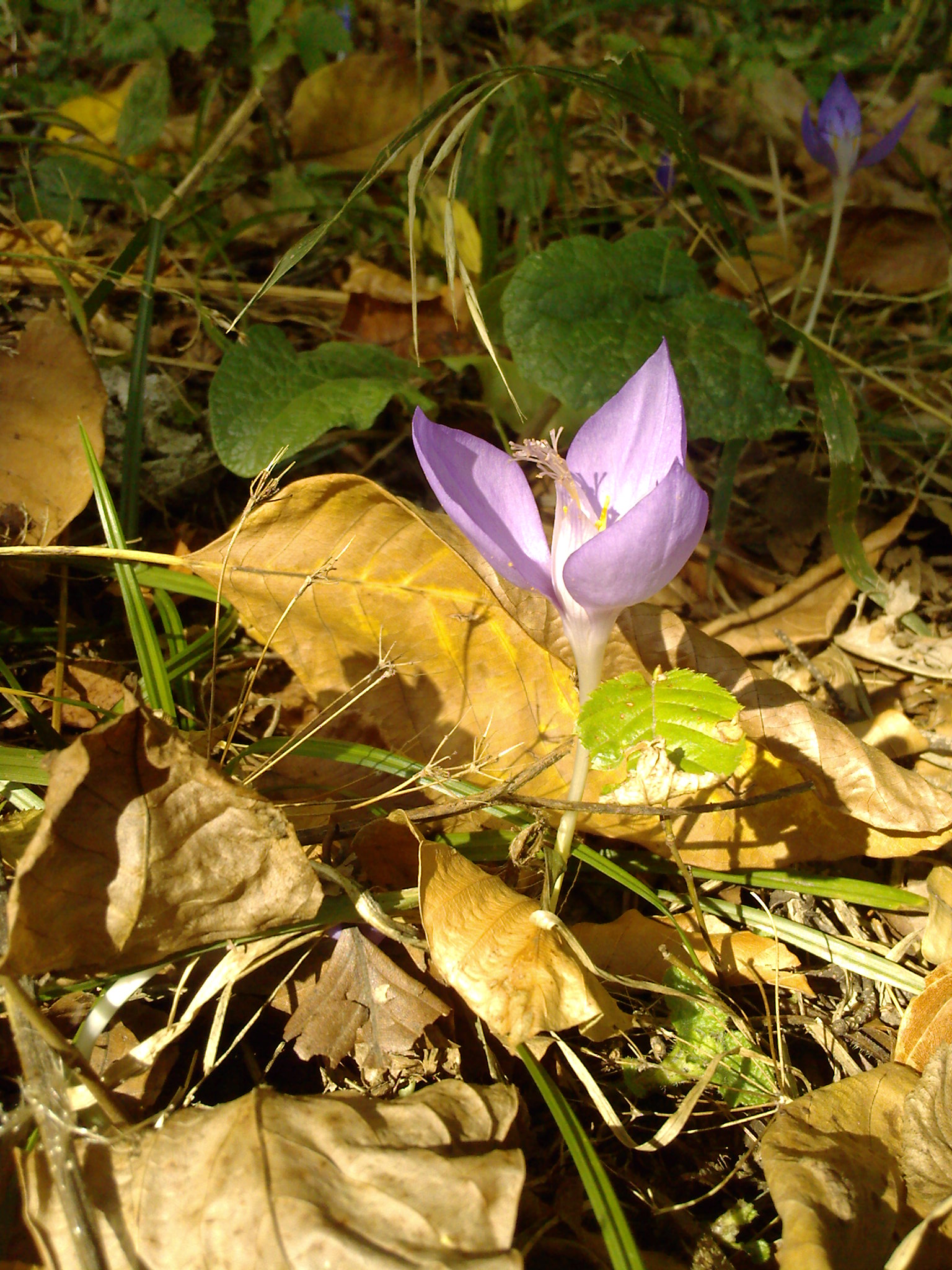 Crocus banaticus